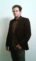 photo of Mitchell Joachim